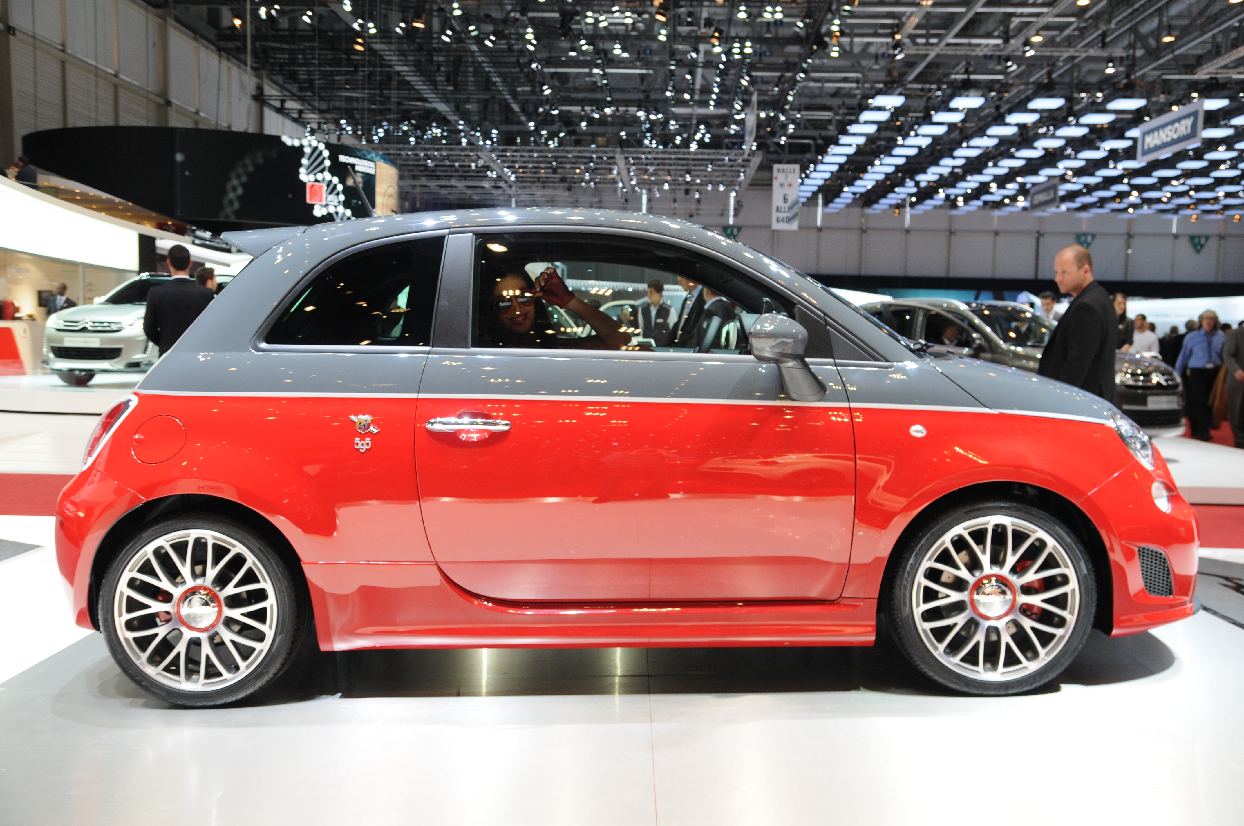 Geneva Motor Show 2012 (photos taken on the second press day)